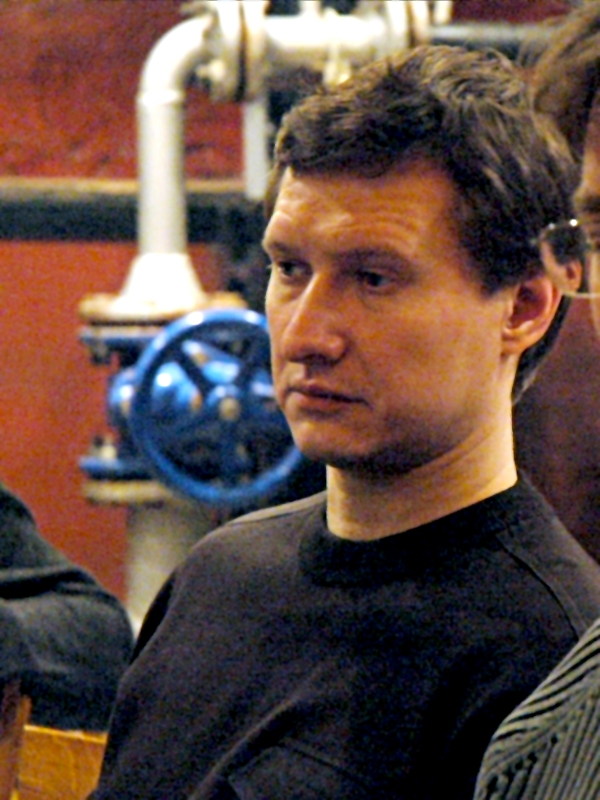 Stanislav Markelov (1974-2009), a Russian human rights lawyer and journalist, at a seminar in Bilingua club (Moscow) on November 13, 2007 (assasinated on January 19, 2009 in Moscow).